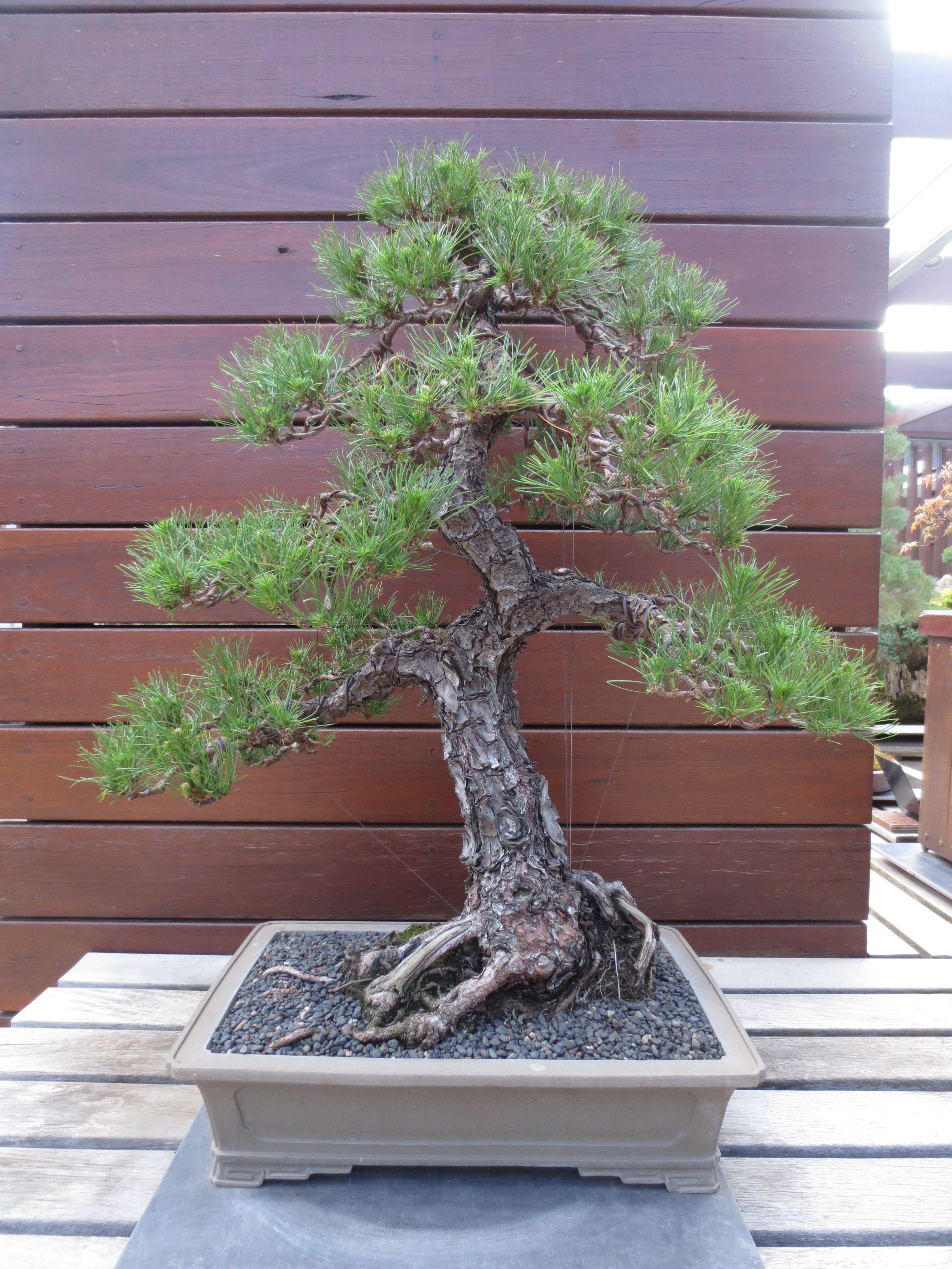 bonsai at national arboretum in Canberra Monterry Pine Pinus Radiata tree bonsai from 1973